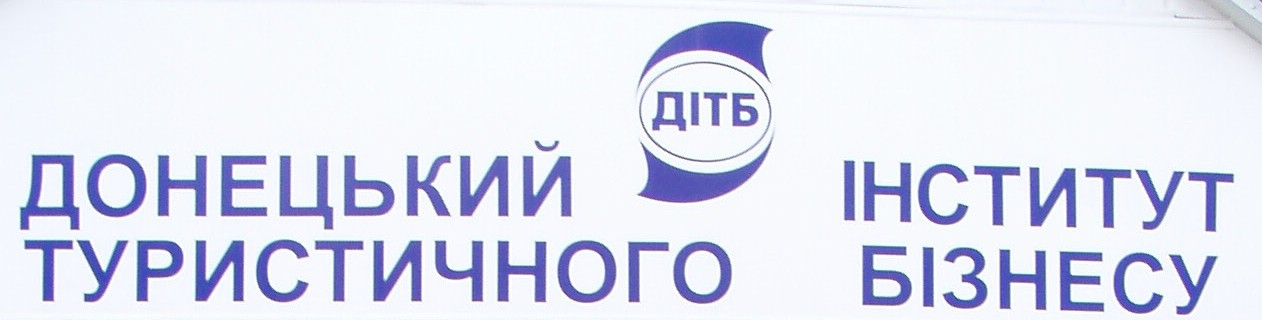 Logotype of the Donetsk Institute of Tourist Business (DITB)